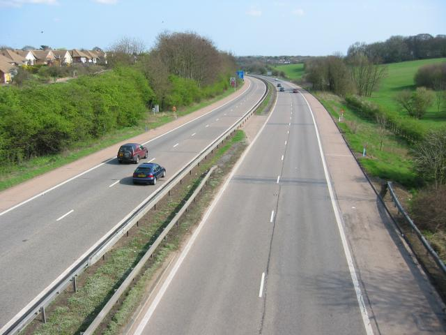 M10, from bridge. Looking East from the bridge over the M10 at TL137055.